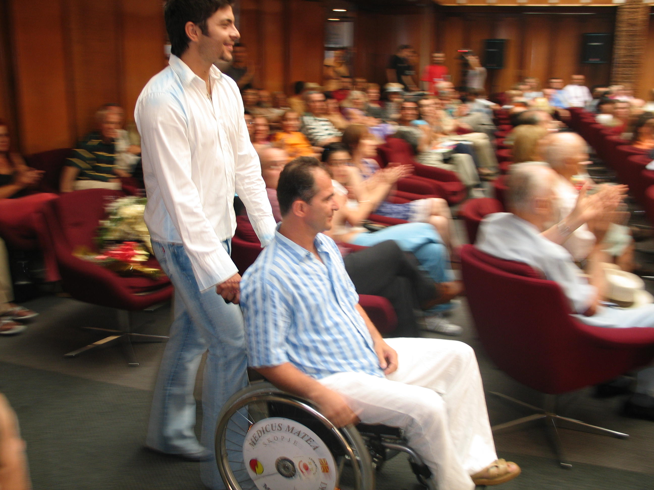 Together with Toše Proeski to receive the Mother Teresa Award for humanitarian achievements.